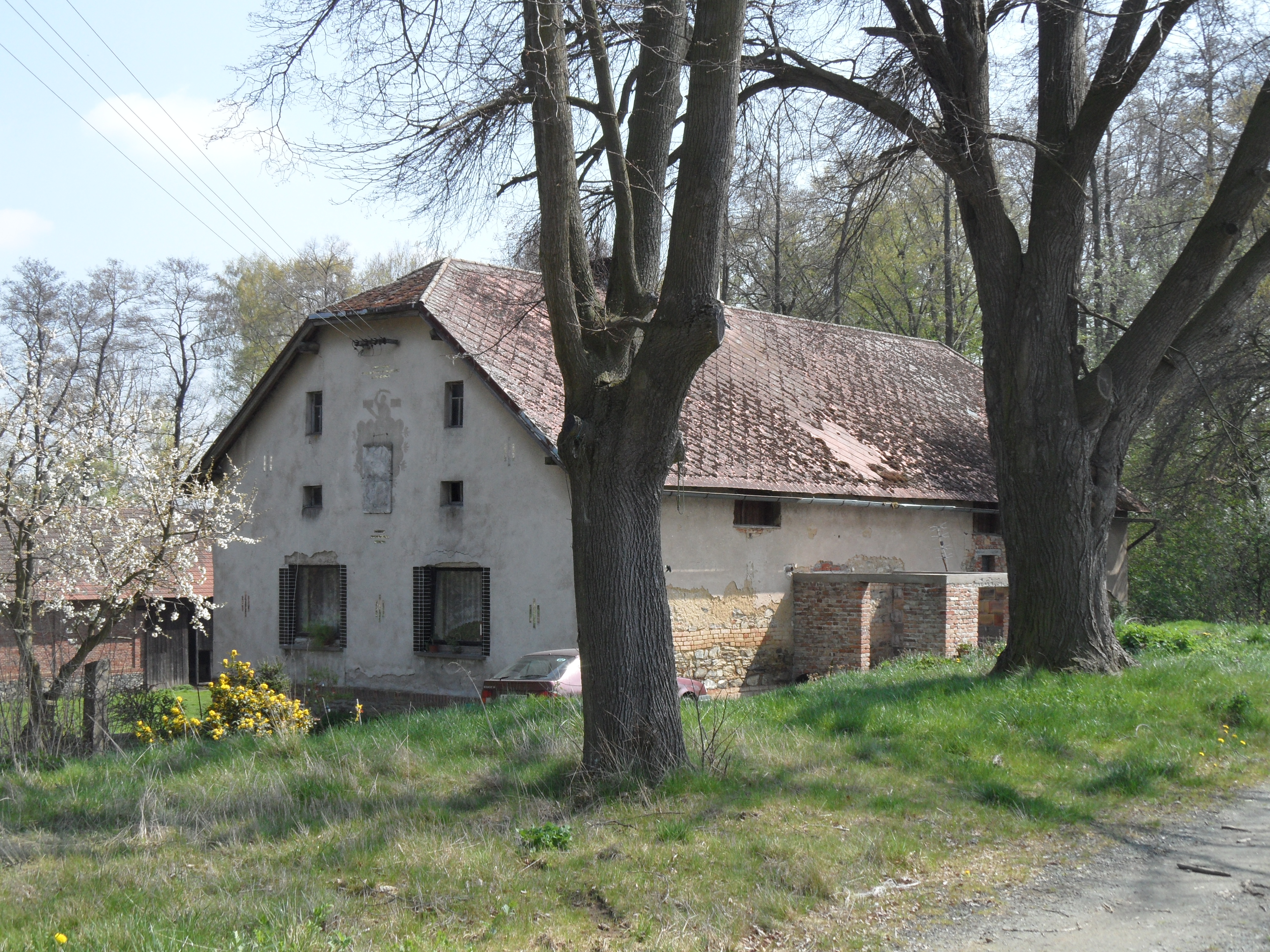 Lány (Červené Janovice) F. Former Water Mill Turkovec (Lány No. 28), Kutná Hora District, the Czech Republic.